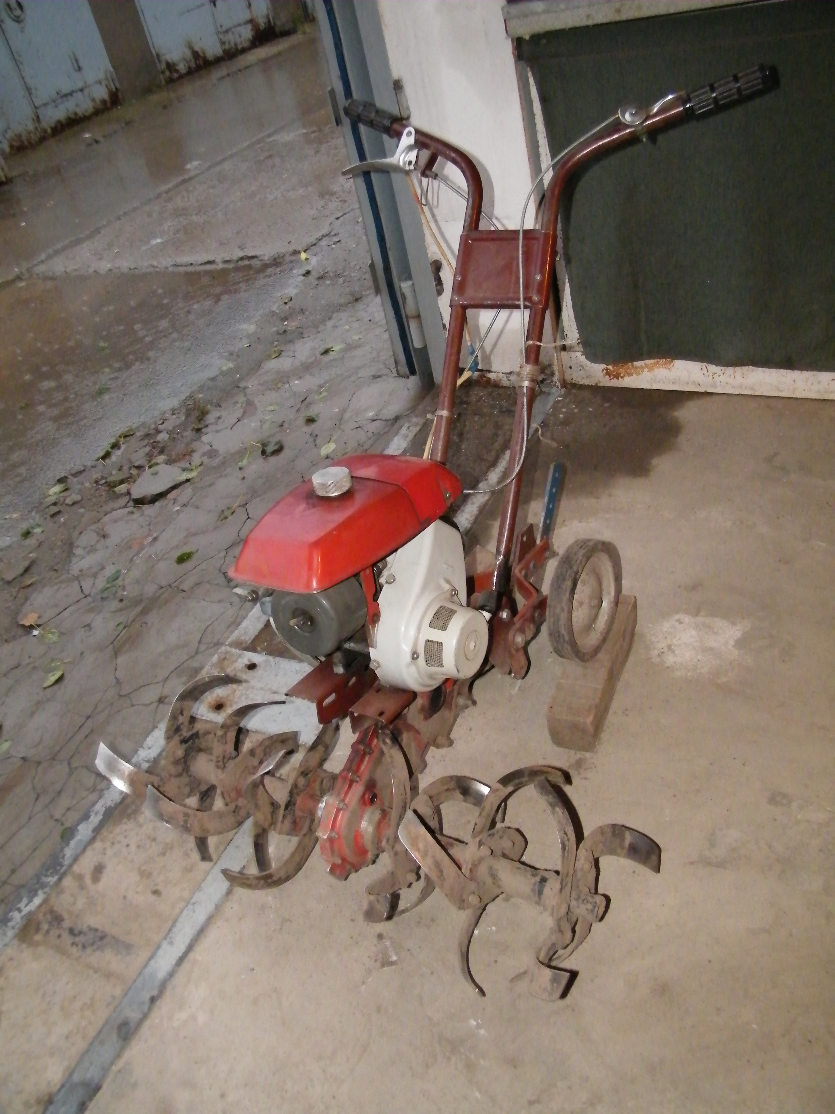 Мотокультиватор Крот